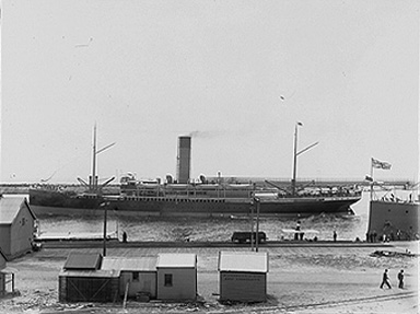 Black and white photo of SS Yongala taken at Fremantle, Western Australia in 1900s.